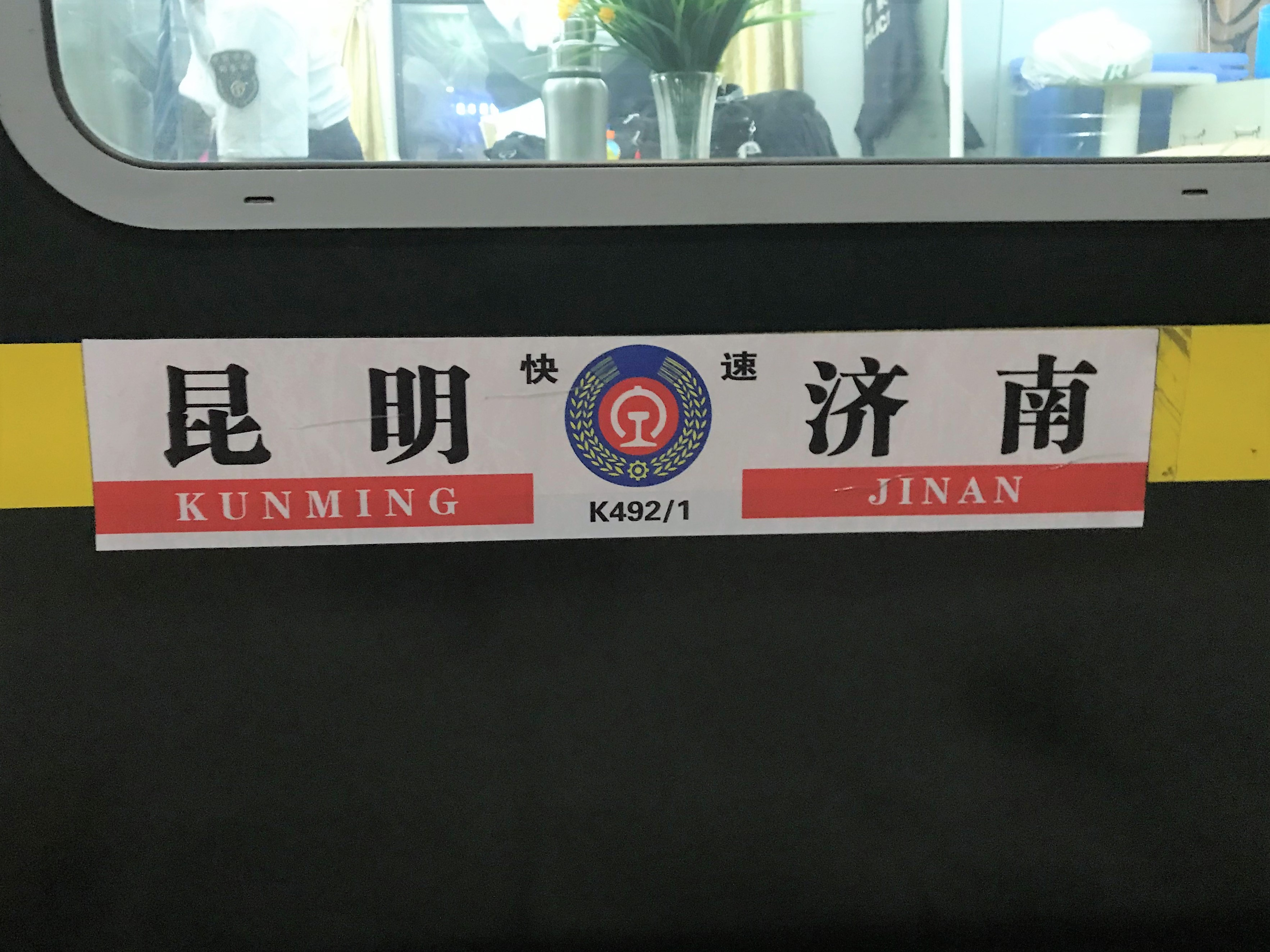 Taken at Kunming Station